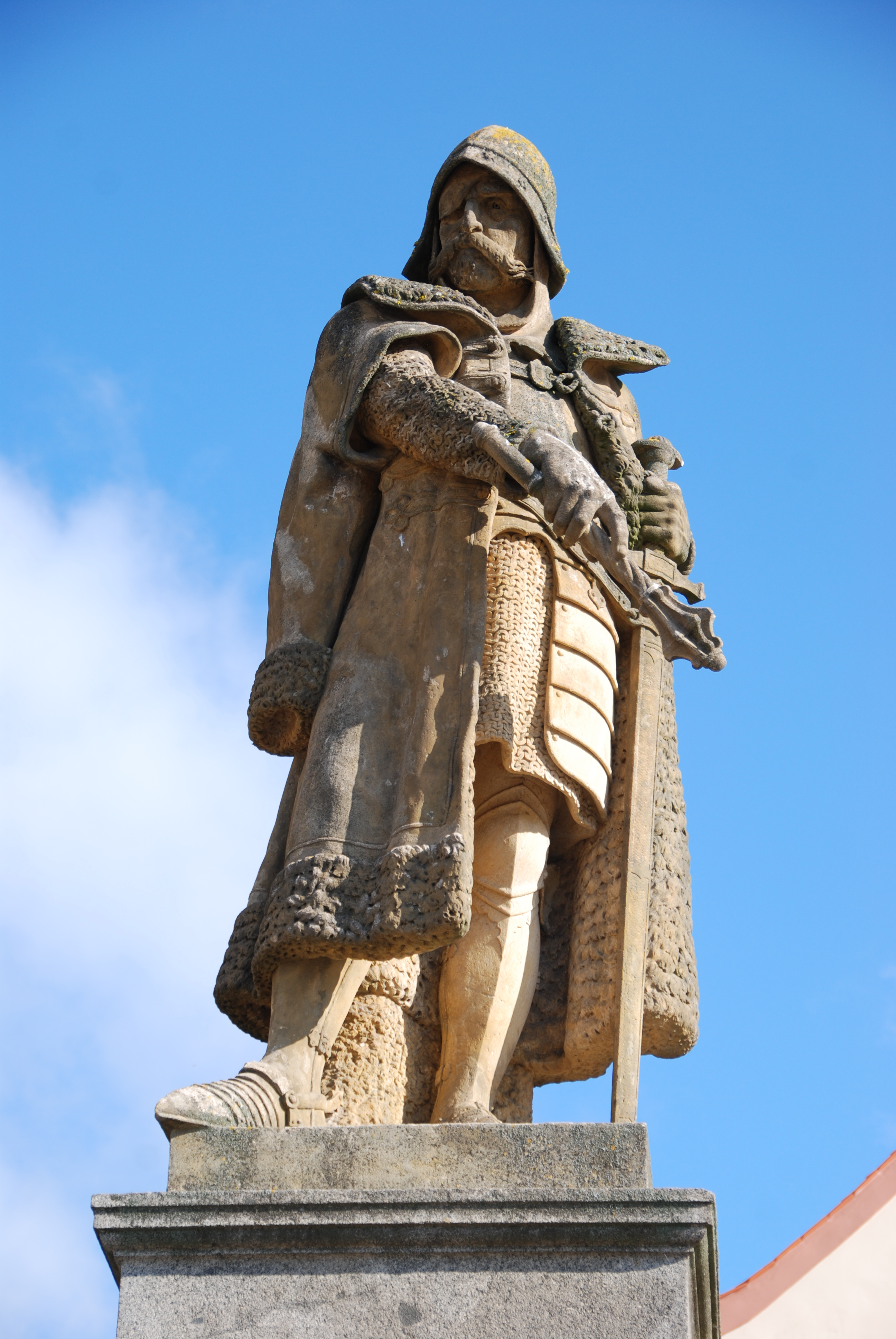 Statue of Jan Žižka in Tábor, Czech Republic, by Josef Strachovský, 1884